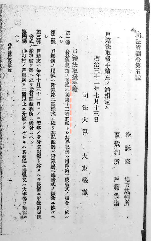 Ministry of Justice Ordinance No. 5.Based on this law, it is stipulated to use Mino paper in the identity registry.